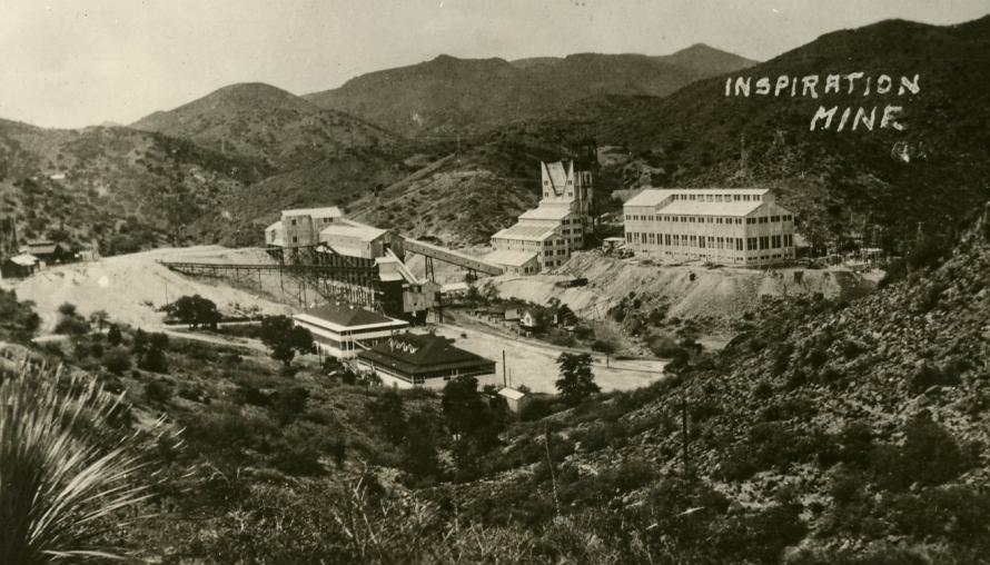 Report of trip by Albert E. Wiggin and J.B. Johnson to Globe and Miami, Arizona, to study plants, smelters, and mills of the Inspiration Consolidated Copper Company, the International Smelting and Refining Company, the Miami Copper Company, and the Old Dominion Copper Mining and Smelting Company. The report is addressed to Frederick Laist, Manager, Washoe Reduction Works. Includes 20 photoprints of architectural drawings of smelting processes and of smelting plants in Miami, Ariz.